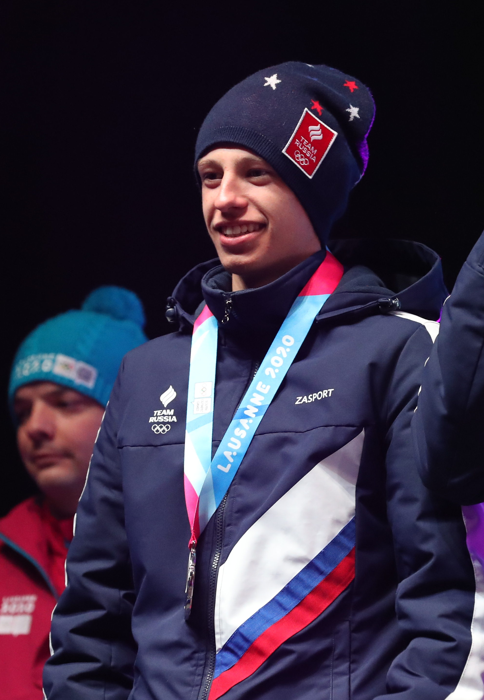 Medal Ceremony Day 6, 2020 Winter Youth Olympics in Lausanne